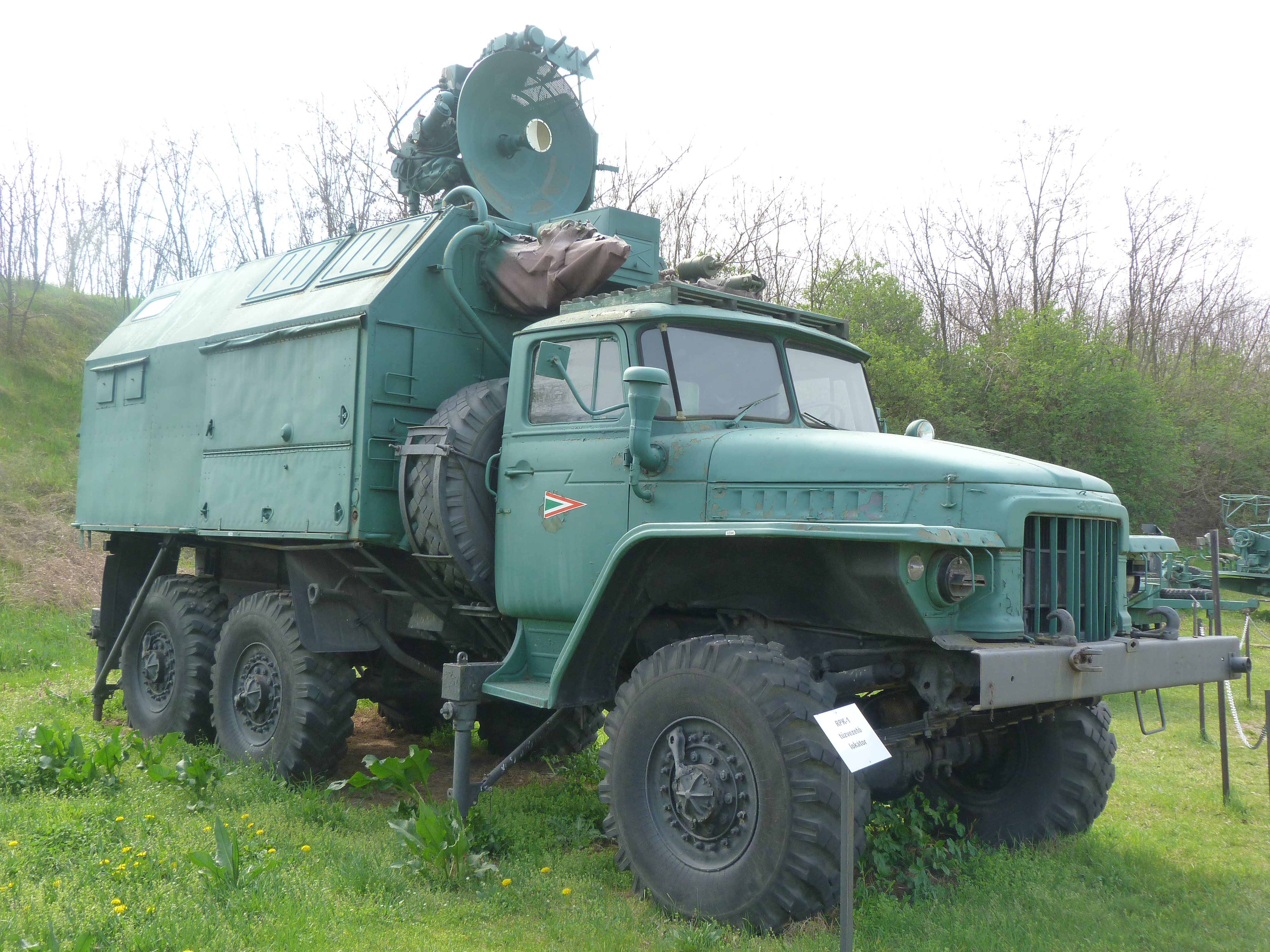 Live on the 31st of March, 2014. Komárom, Hungary. The Monostori Fortress. Open air exibition of the military equipement of the Hungarian People's Army. Photos of the parts and the fortress itself in the Metapolisz DVD line. ©© Derzsi Elekes Andor, Budapest, 2014, You are authorised to use these photos and vids under Creative Commons – even for commercial, for profit purposes. Photos must be attributed to Derzsi Elekes Andor. All of the photos and vids in the Metapolisz DVD line are under Creative Commons and can be used even for commercial – for profit – purposes. Recommended Citation Derzsi Elekes Andor: Metapolisz DVD line